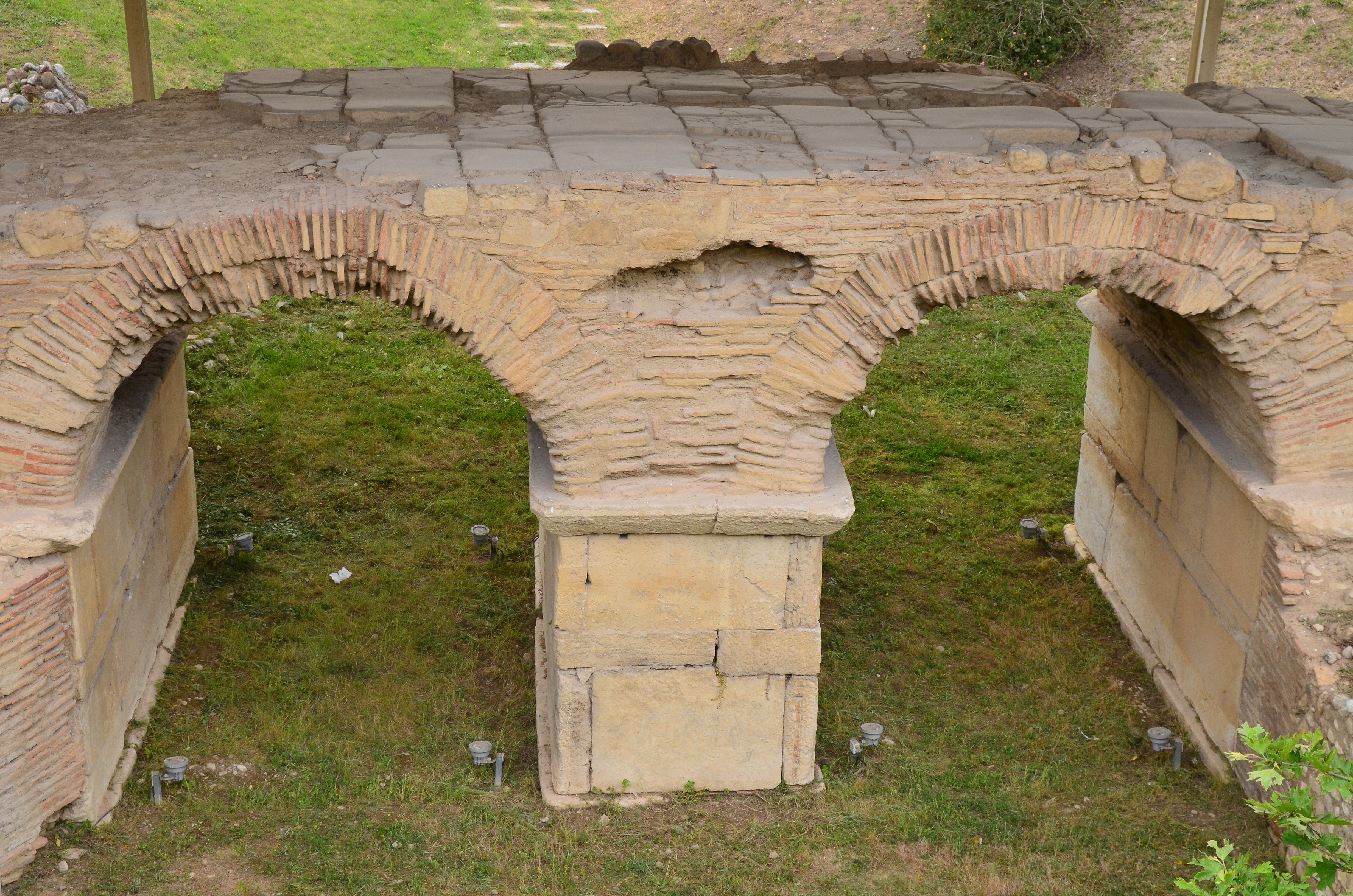 Roman bridge, constructed in the 2nd-3rd century AD over the river Kalliaios and part of the public road (via publica) connecting Patra with Aigio, the best preserved two-arched bridge in Greece, Patras, Greece